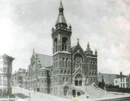 Cathedral of Saint Mary of the Assumption in San Francisco, California, USA. It served as the cathedral of the Archdiocese of San Francisco from when it was completed in 1891 to 1962 when it was destroyed by fire. The Romanesque Revival structure was designed by the Chicago architectural firm of Egan and Prindeville.